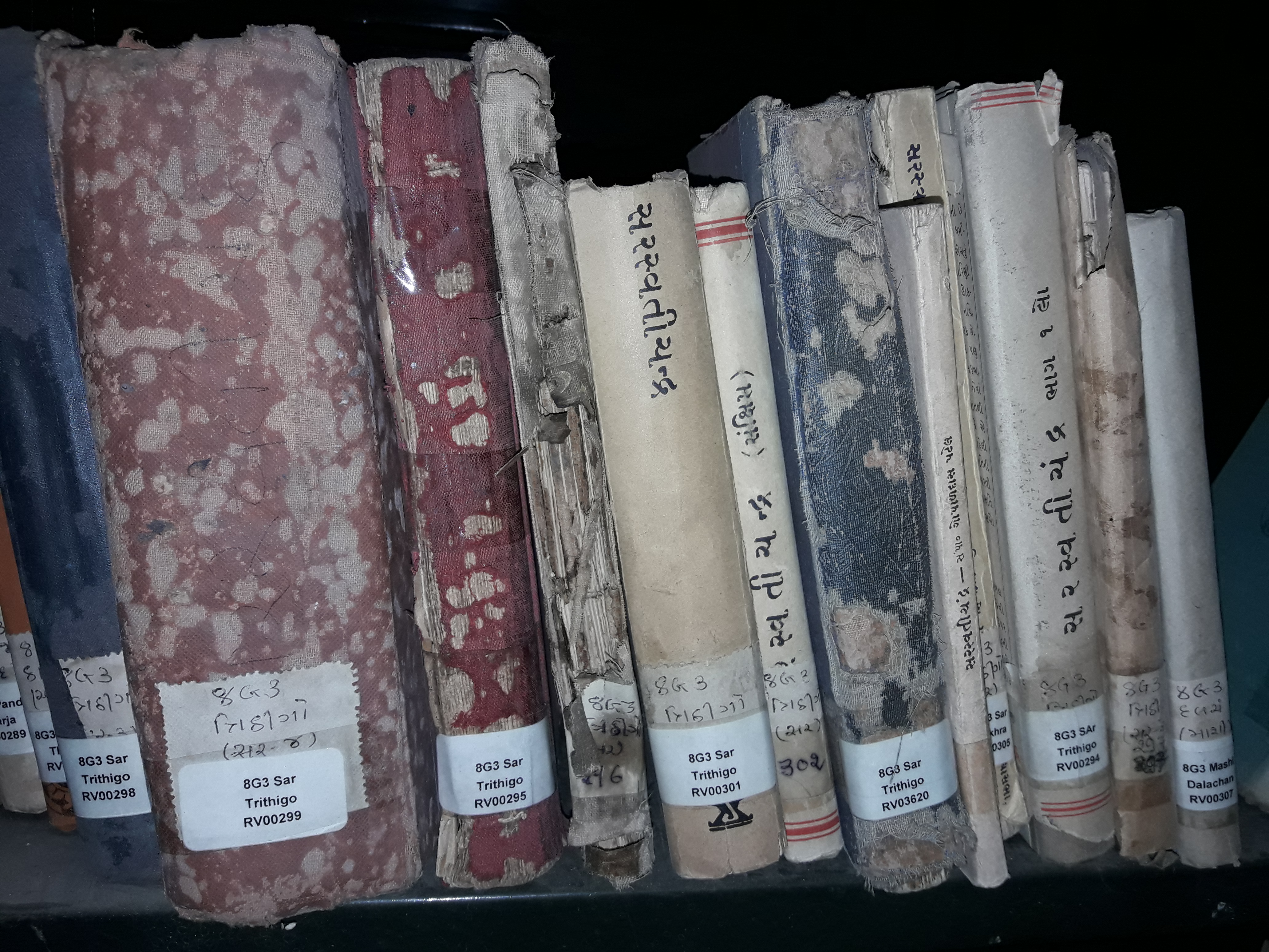 Volumes of Gujarati novel Sarasvatichandra, written by Govardhanram Tripathi, at Gujarati Sahitya Parishad library, known as Chimanlal Mangaldas Library. The volumes are gifted by Gujarati writer Ramnarayan V. Pathak to Gujarati Sahitya Parishad.